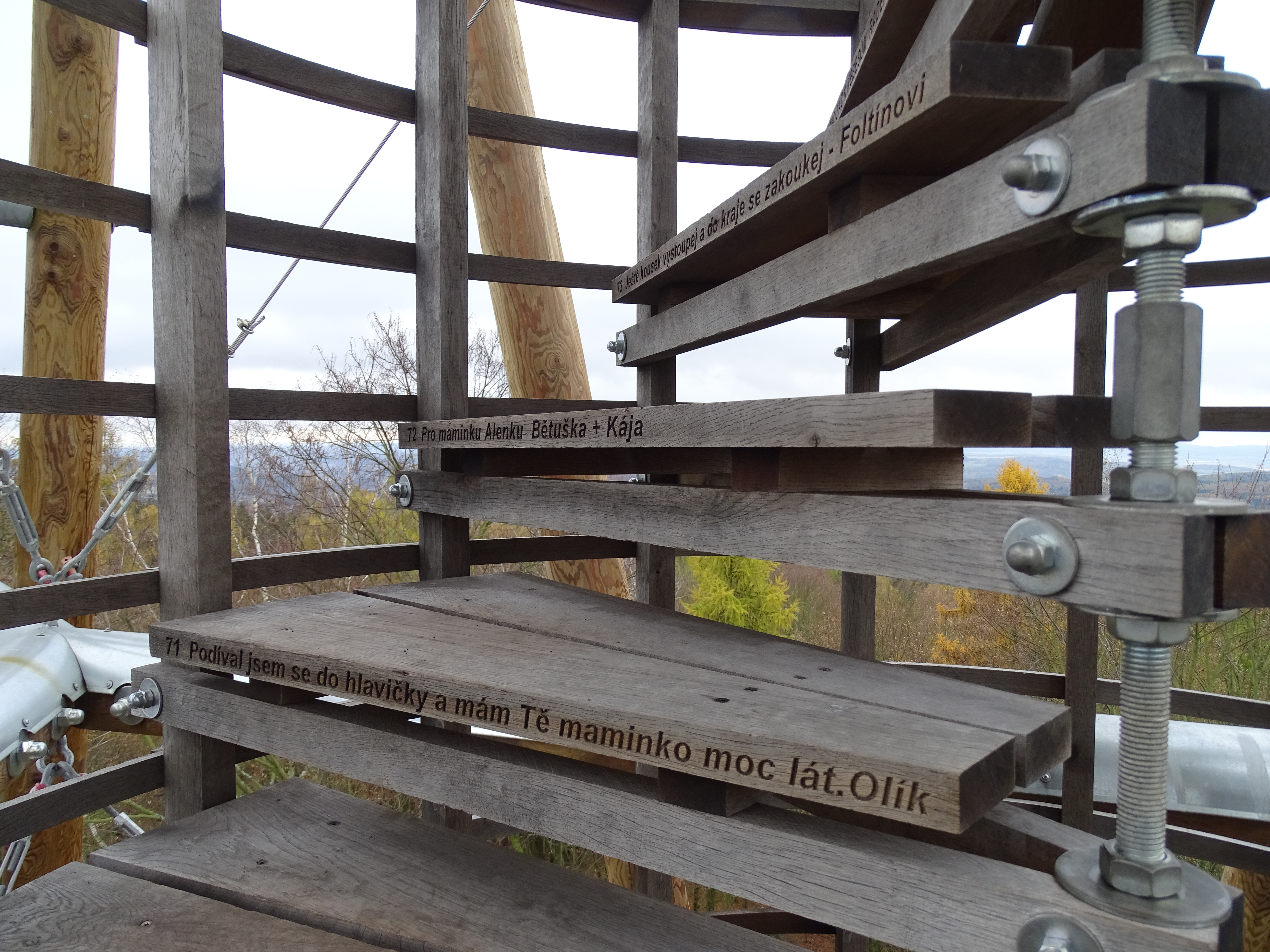 Hudlice, Beroun District, Central Bohemian Region, Czechia. Krušná hora, Máminka tower, a staircase.